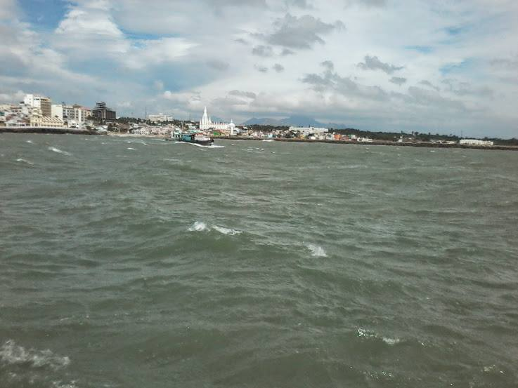 Kanyakumari town picture taken from a ferry in between town and vivekananda Rock memorial.